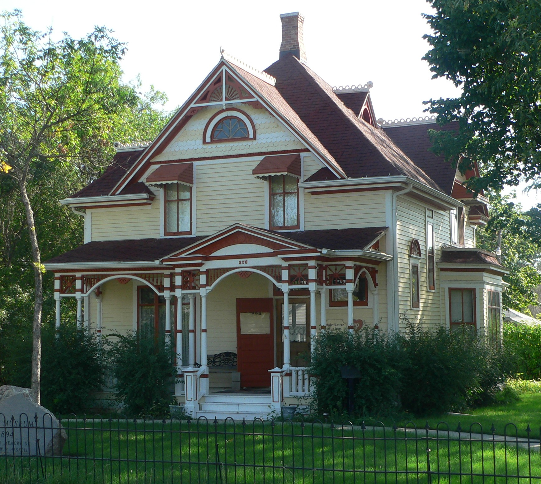 Pyle House Museum, located at 376 Idaho Avenue SE (northeast corner of Idaho and 4th Street SE) in Huron, South Dakota; seen from the west-southwest.